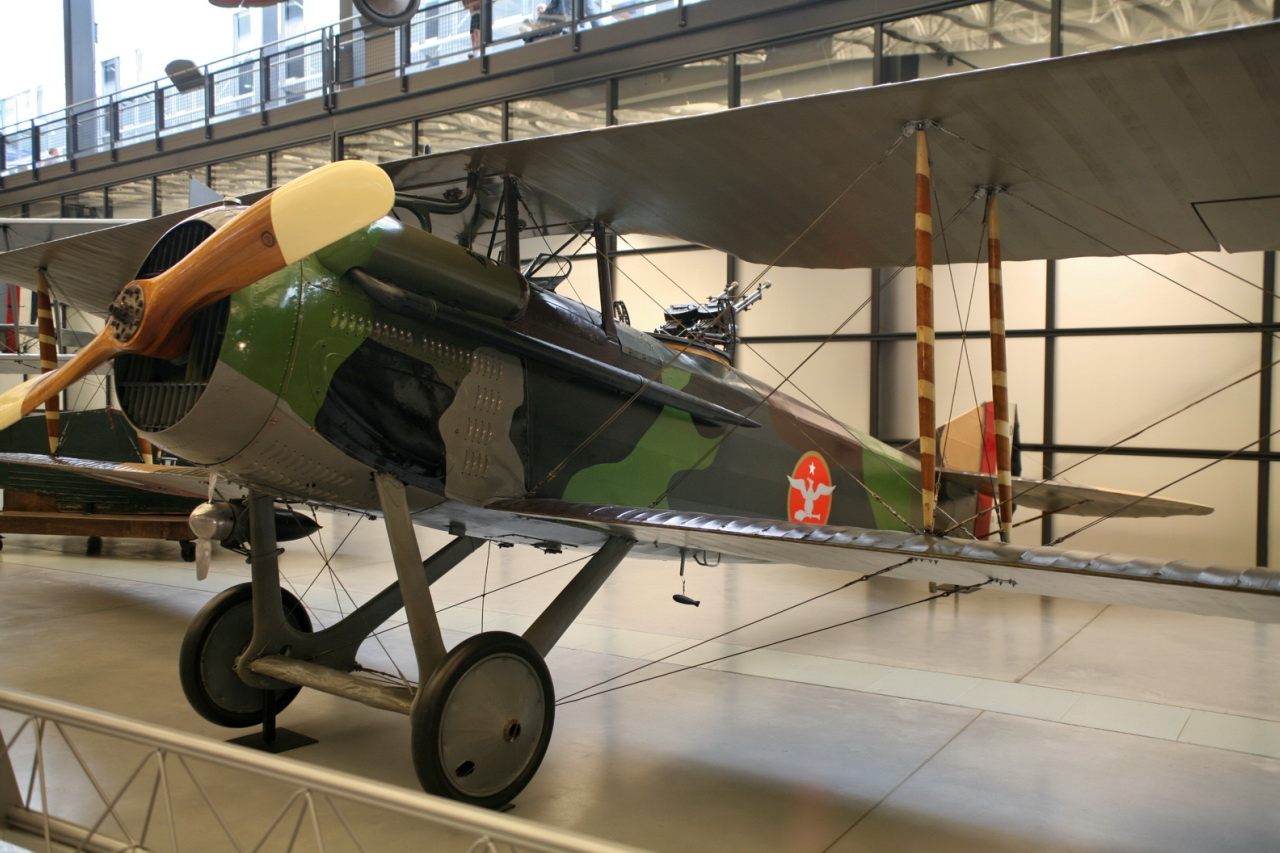 The Spad XVI was a two-seat version of the very successful single-seat Spad fighters of the First World War, the Spad VII and the Spad XIII. The first Spad two-seater design to see front-line service was the Spad XI. The Spad XVI was an attempt to improve upon it by replacing the Spad XI's 220-horsepower Hispano-Suiza engine with a 240-horsepower Lorraine-Dietrich 8Bb. The Spad XVI appeared in January 1918. It was slightly faster than the Spad XI, but had a lower ceiling and the same poor handling qualities. It offered no overall improvement. Nevertheless, approximately 1,000 Spad XVIs were built, ultimately equipping 32 French escadrilles.